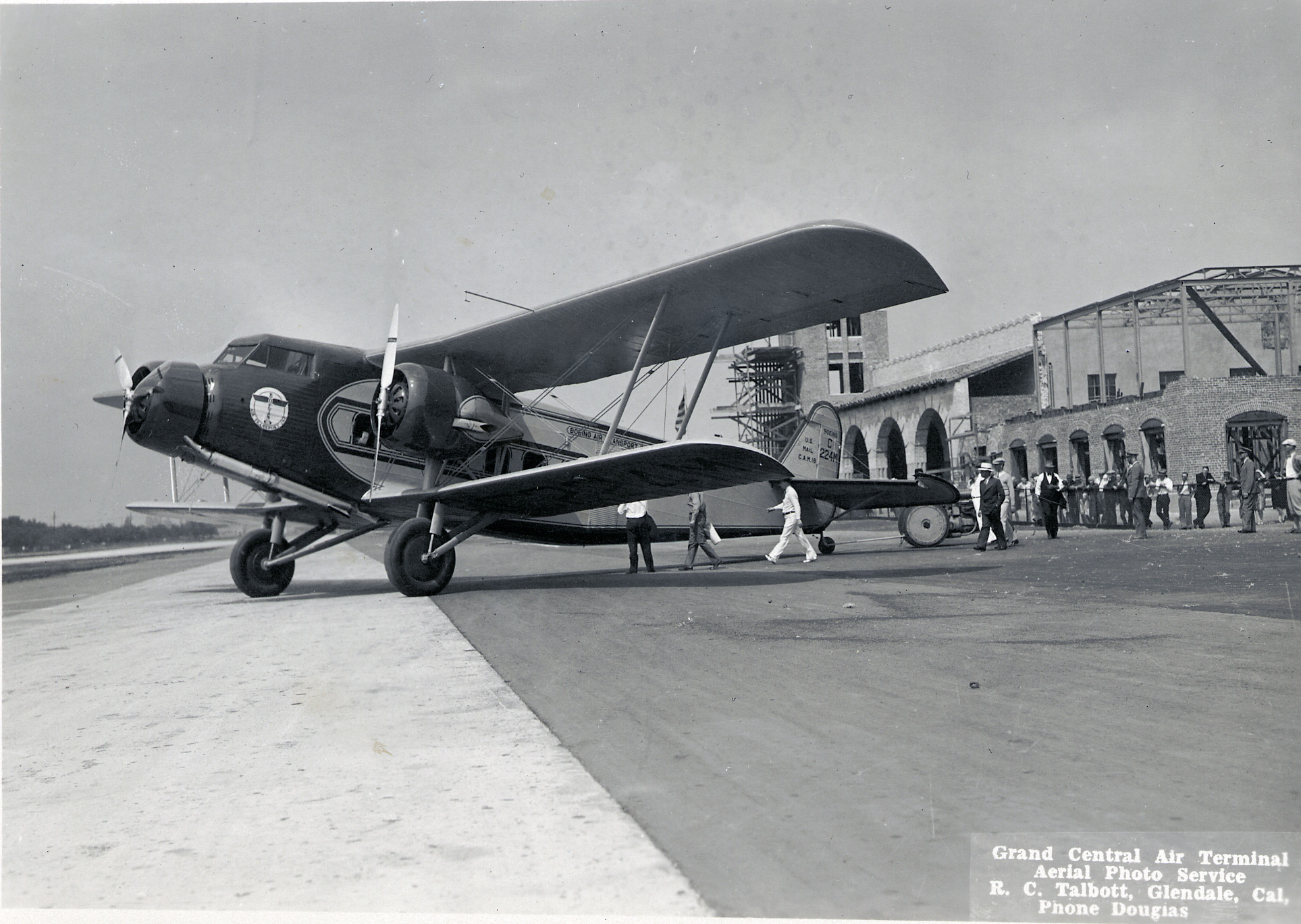 United Airlines (Boeing Air Transport) Boeing 80A-1 outside the Grand Central Air Terminal Glendale, California